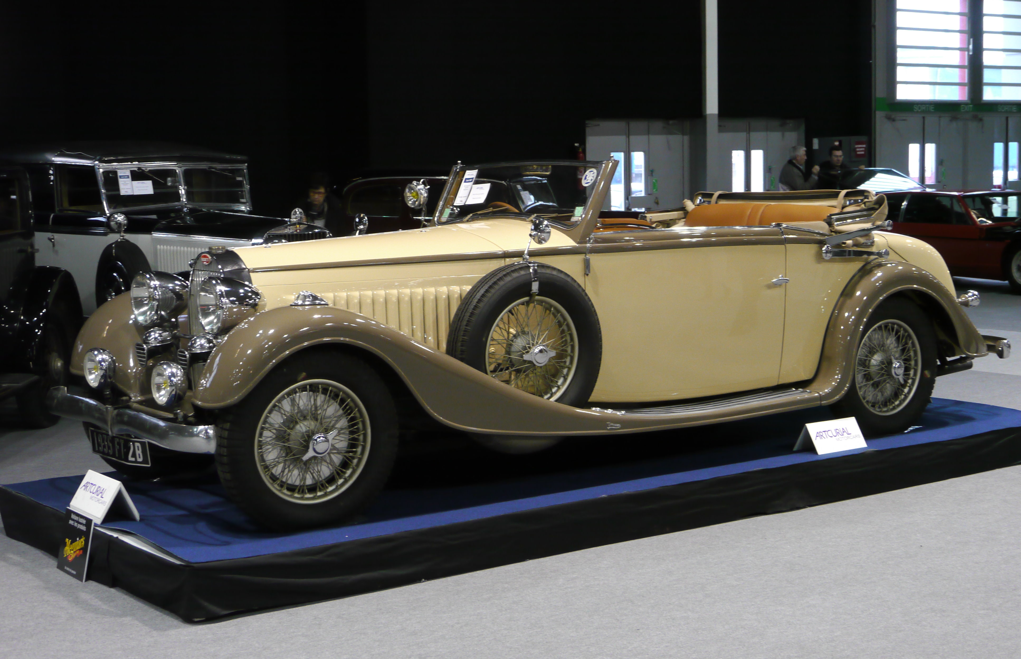 Retromobile, Paris, 2013